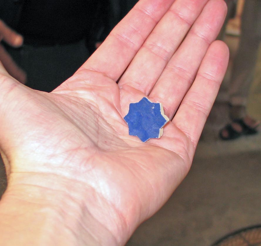 Zellige littl form - star